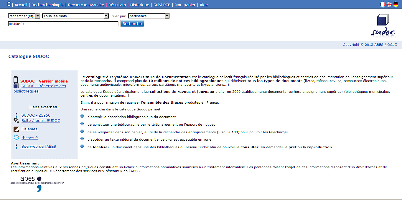 Screenshot Catalogue SUDOC